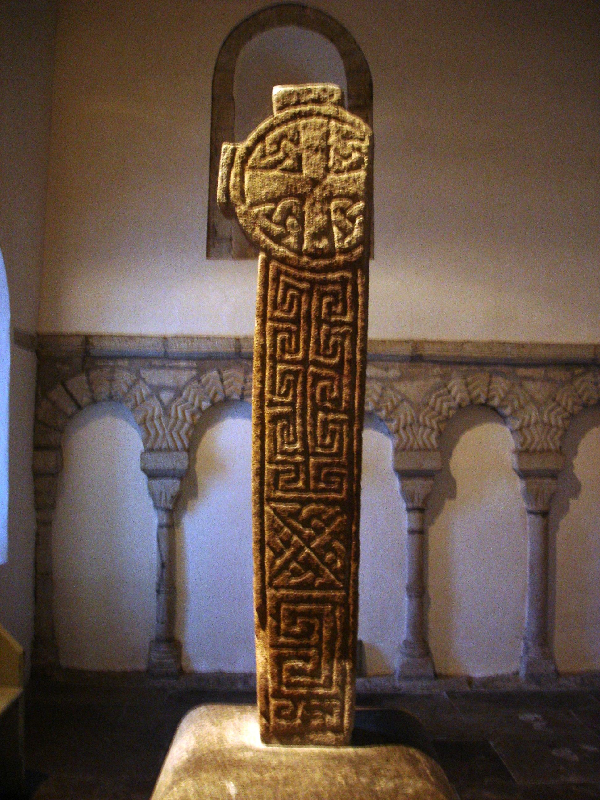 10th century cross from St Seiriol's Church, Penmon, Anglesey. One arm was removed for use as a lintel. The stone base records the moving of the stone by the Cambrian Archeological Society in 1895.